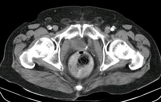 Fecaloma in hospitalized patient. Also he presents a neobladder and atherosclerosis. CT image.